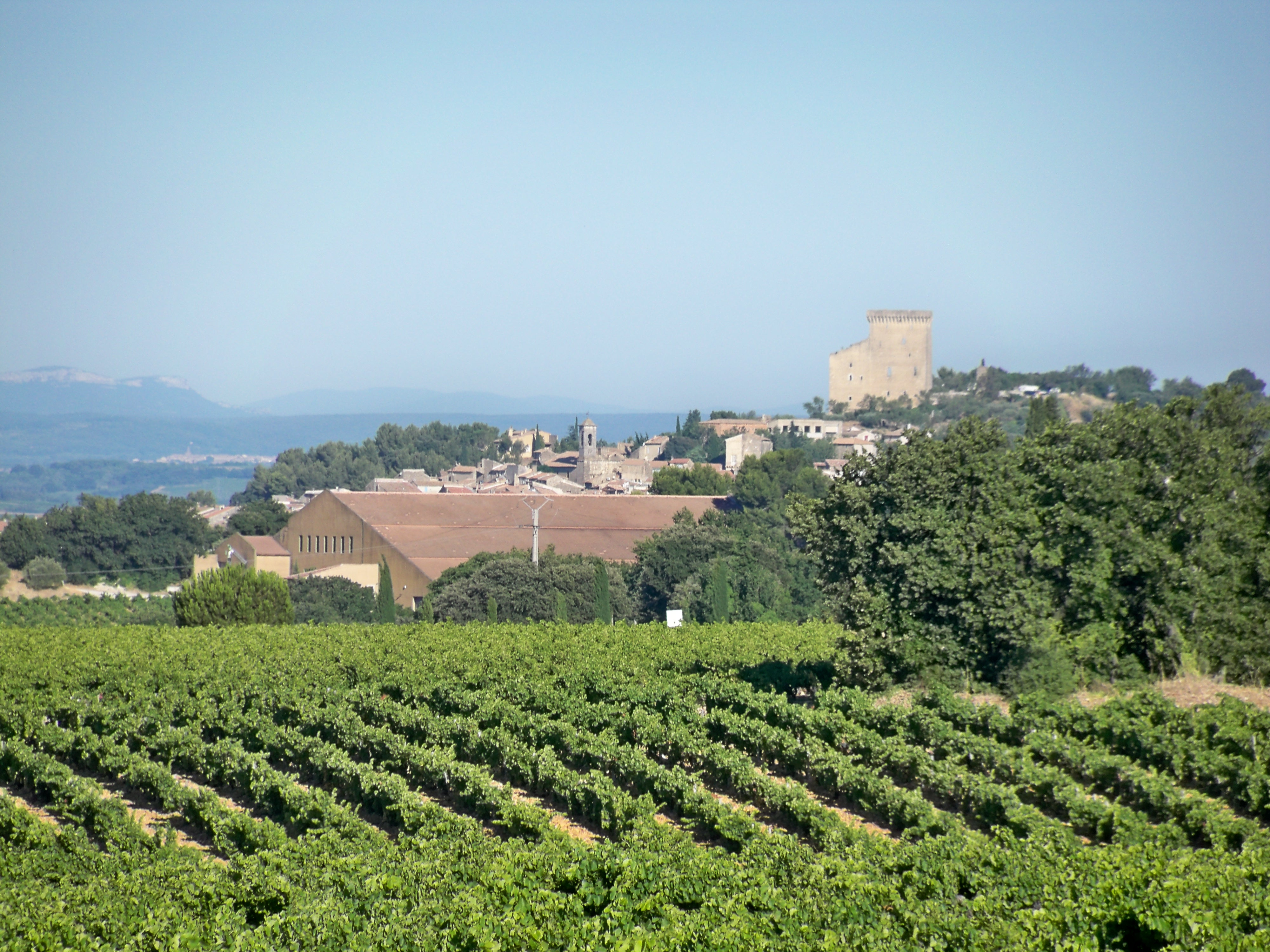 Vineyard in Chateauneuf du Pape, Vaucluse, France